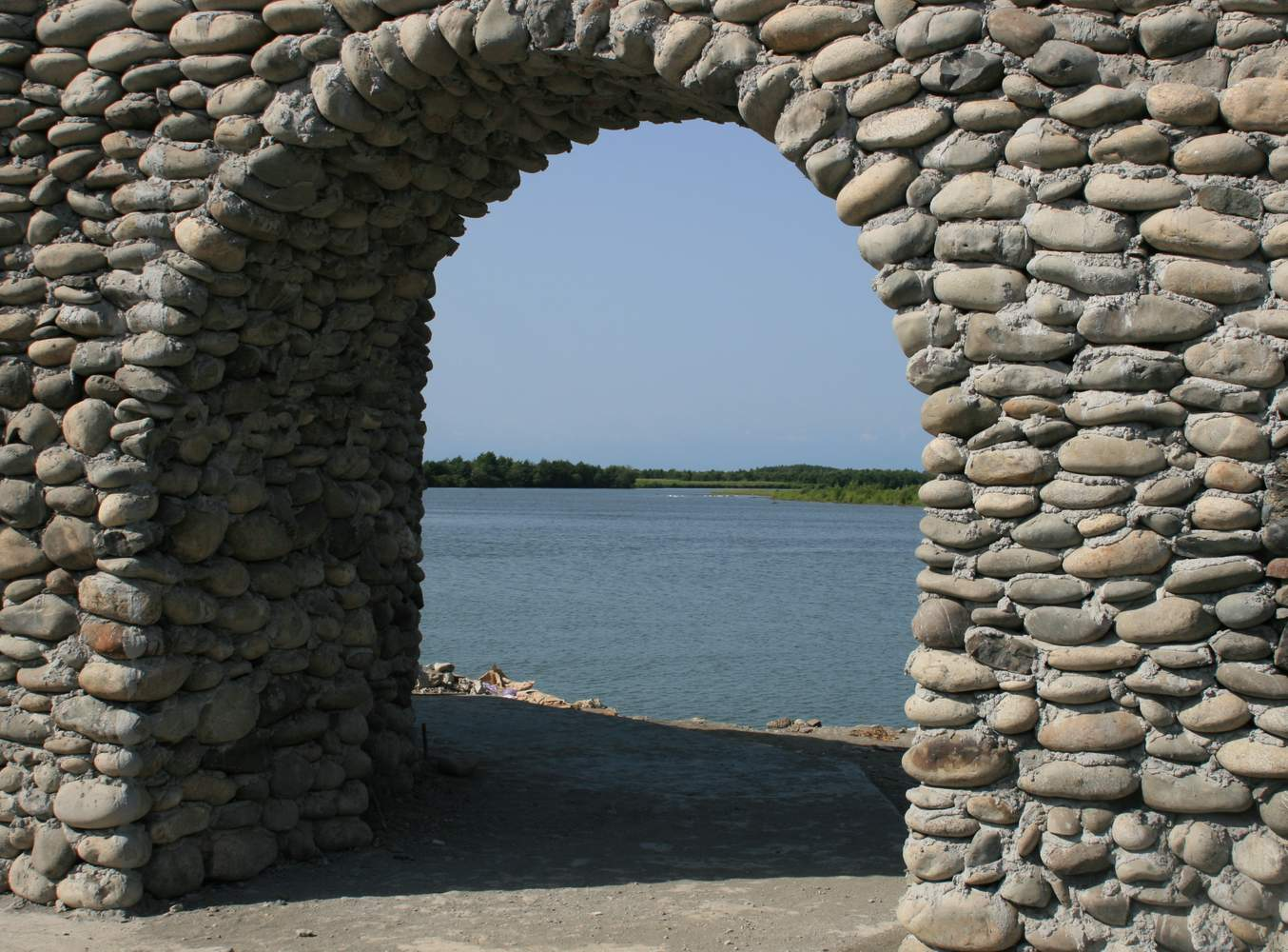 Fortress in Anaklia, Georgia